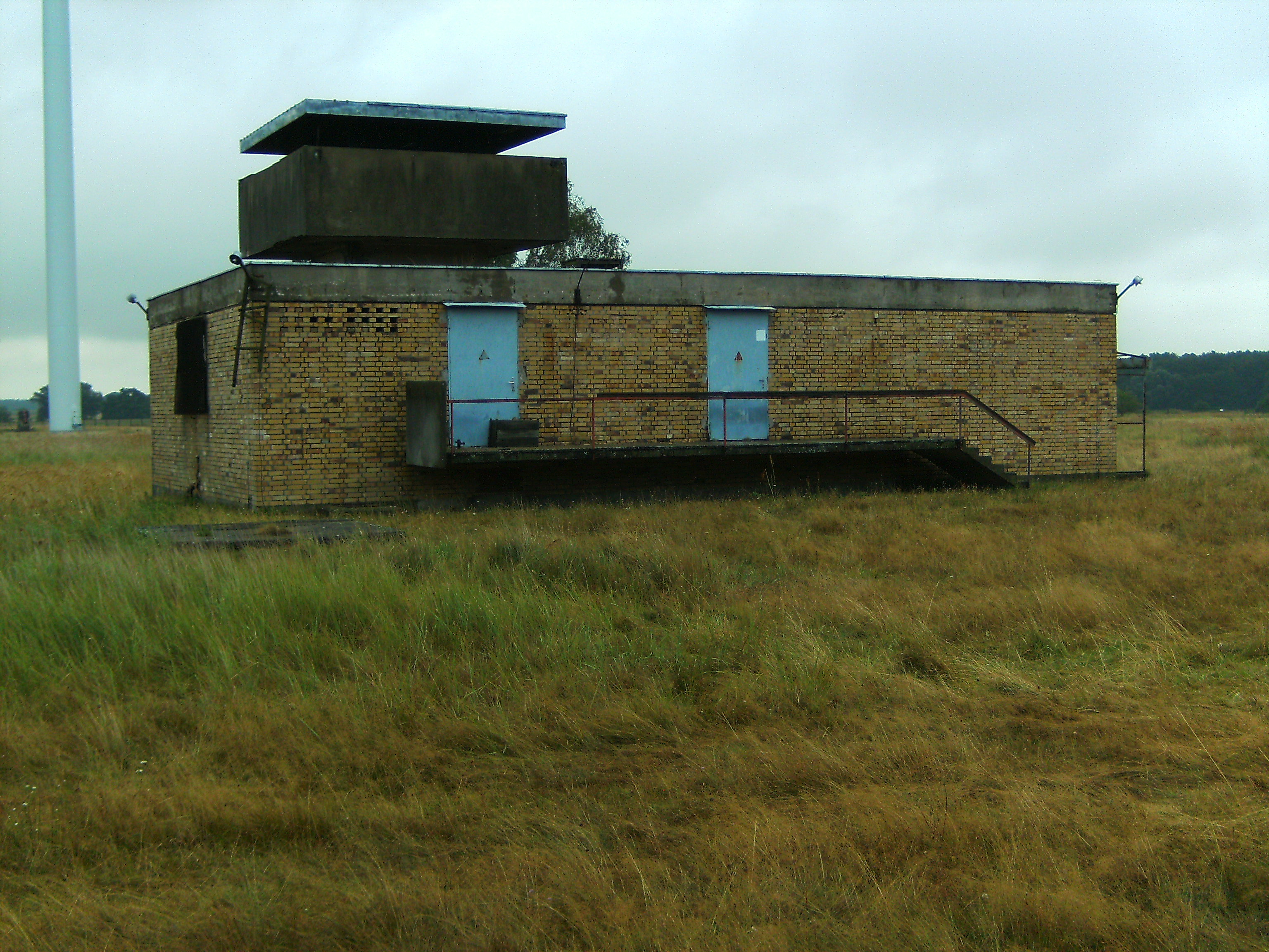 Former helix building at former SL3 radio mast